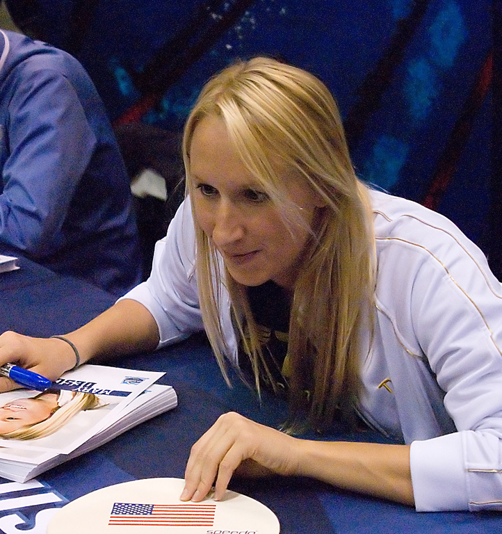 Mary Mohler in 2009 at the trials to the world championships.